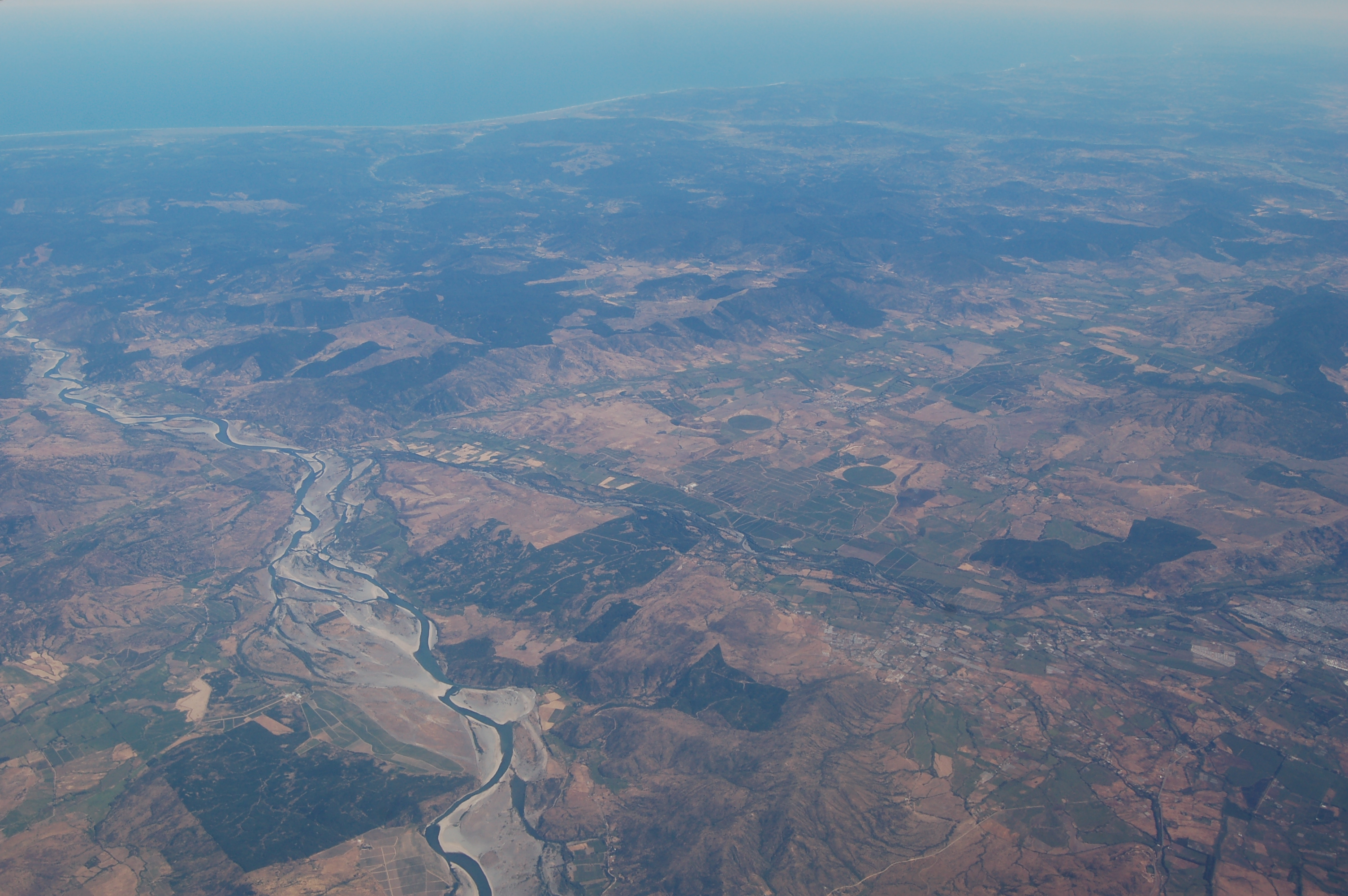 aerial photograph of Río Maule and Río Claro